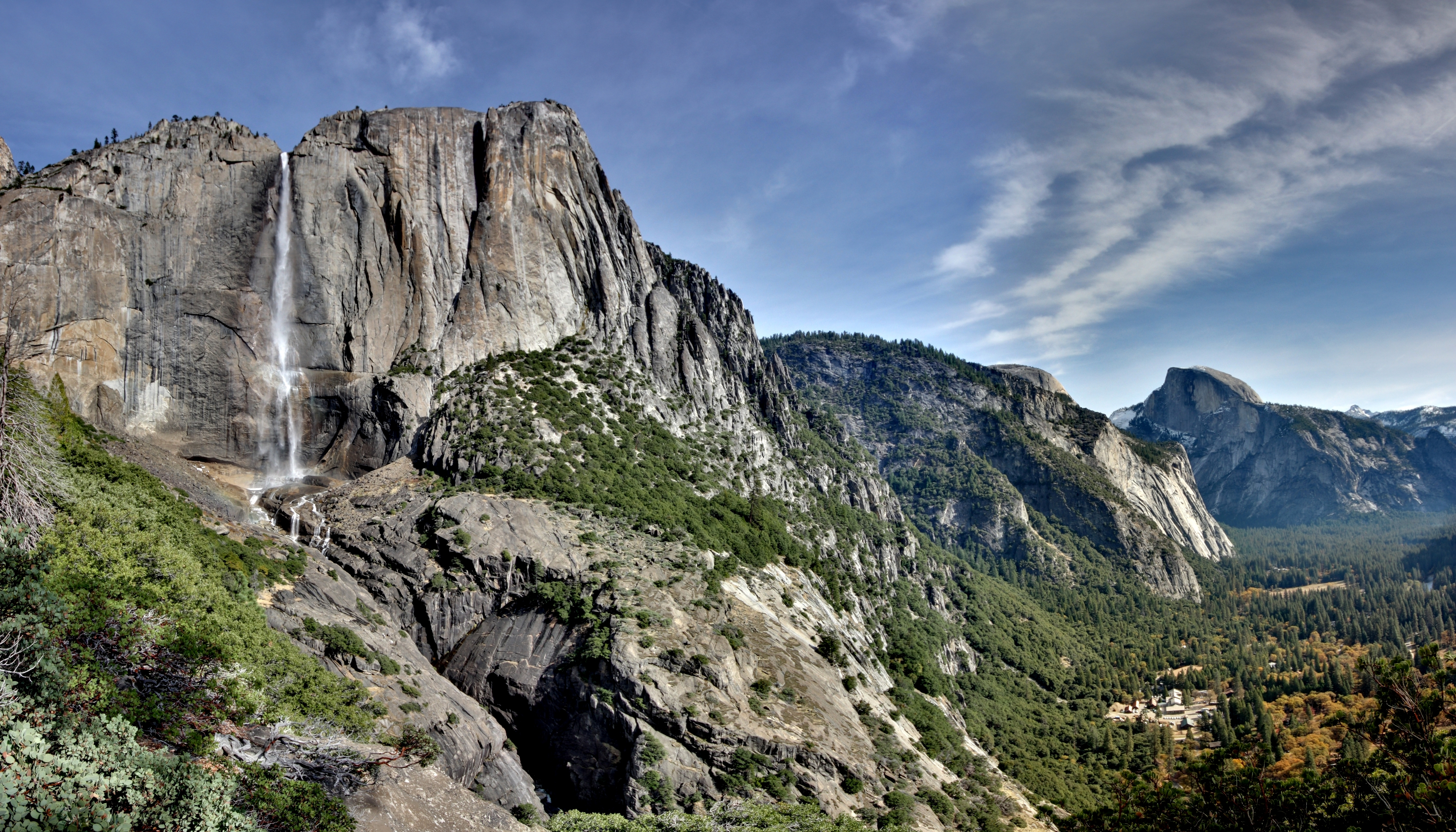 Yosemite Falls